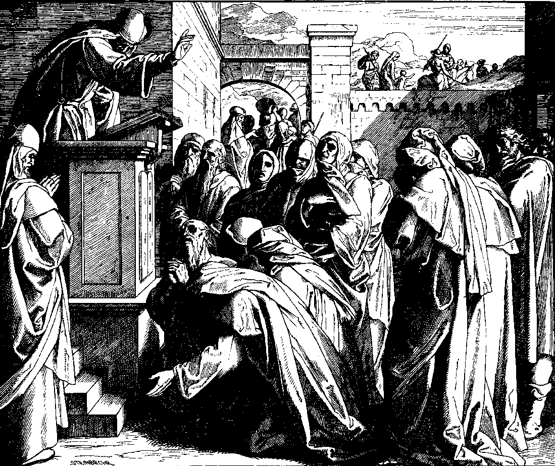 Woodcut for "Die Bibel in Bildern", 1860.